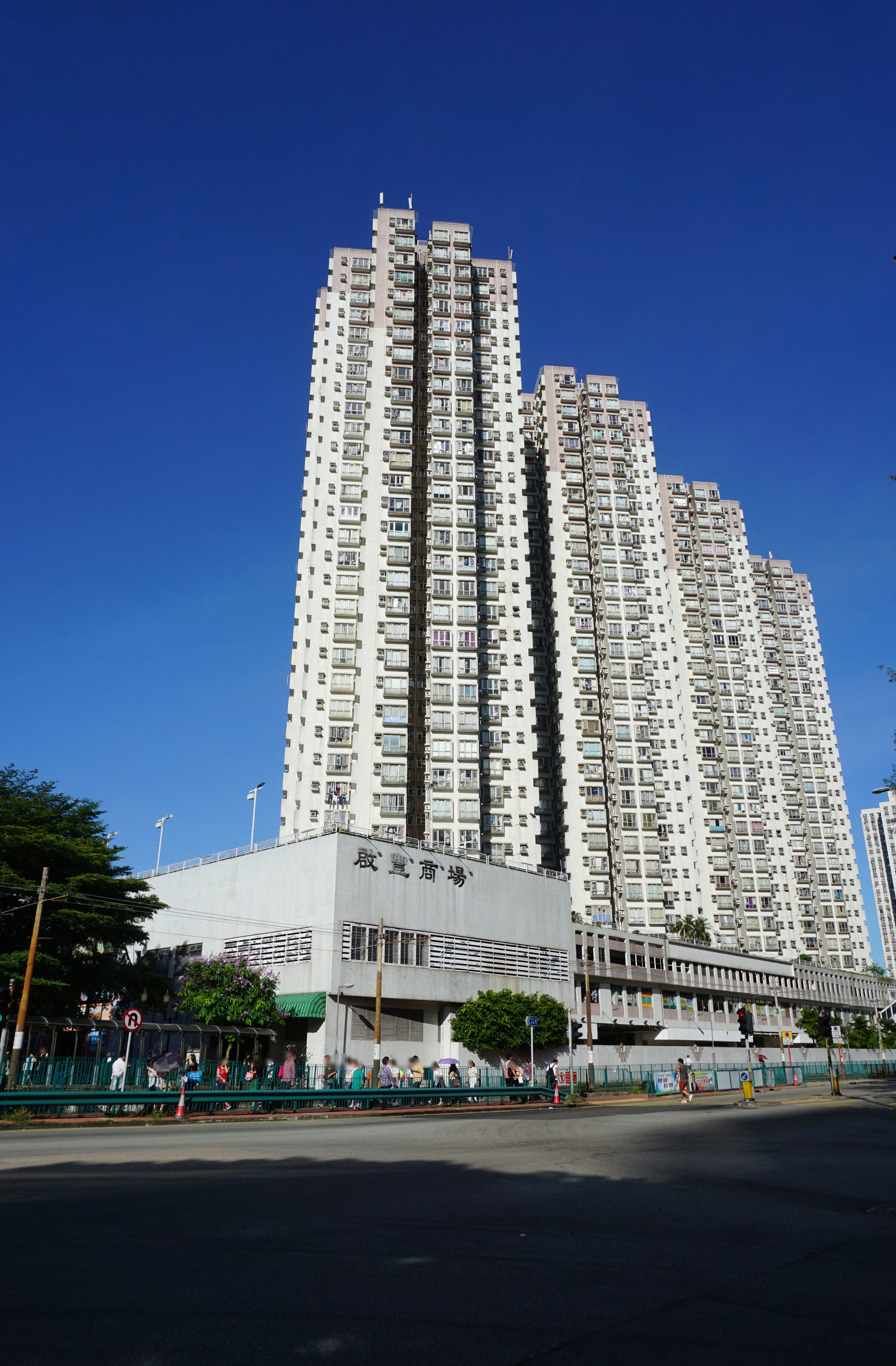 Richland Garden in Tuen Mun, Hong Kong.